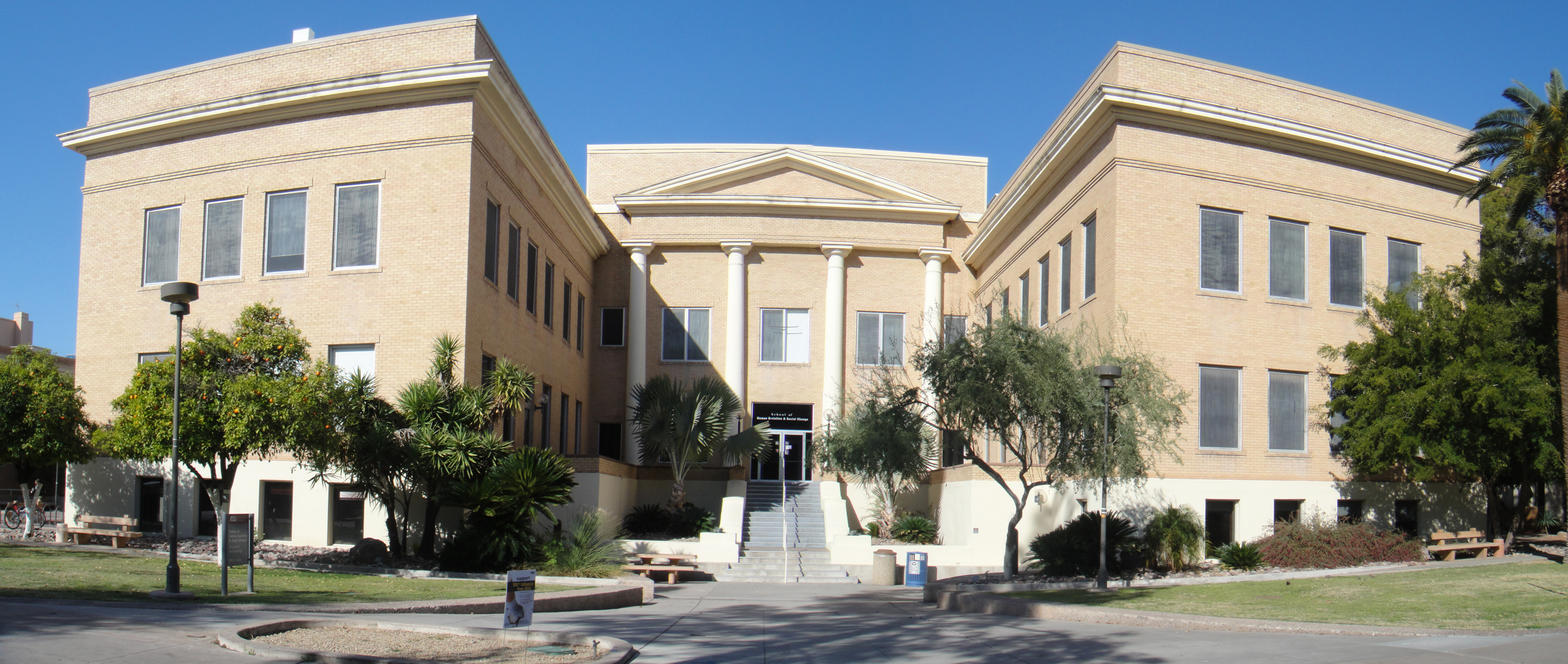 The Industrial Arts building at the ASU Main Campus in Tempe, AZ home of the School of Human Evolution and Social Change